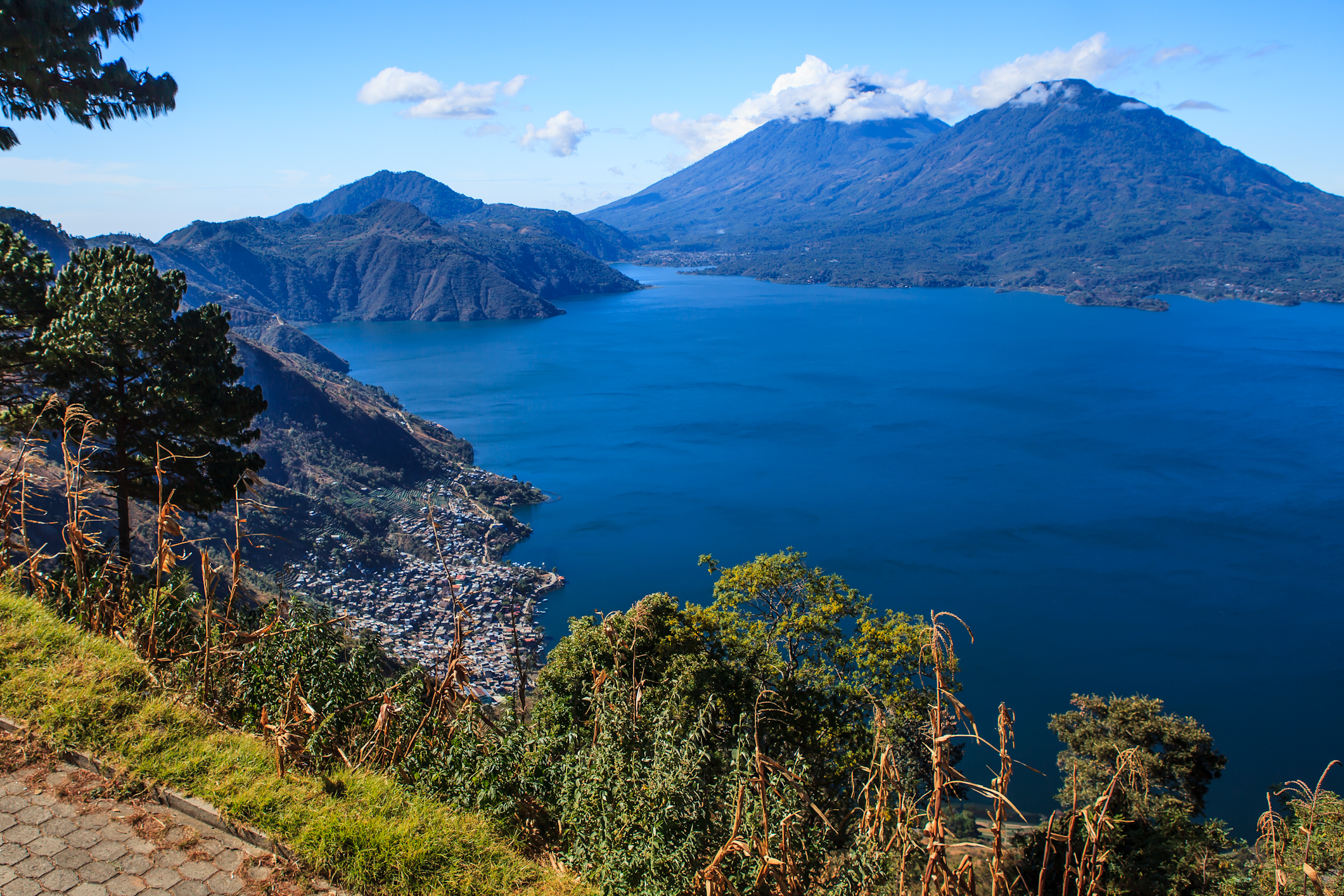 View of Lake Atitlan and the Tolimán (right) and Atitlán volcanoes. In the foreground, the town of San Antonio Palopó.